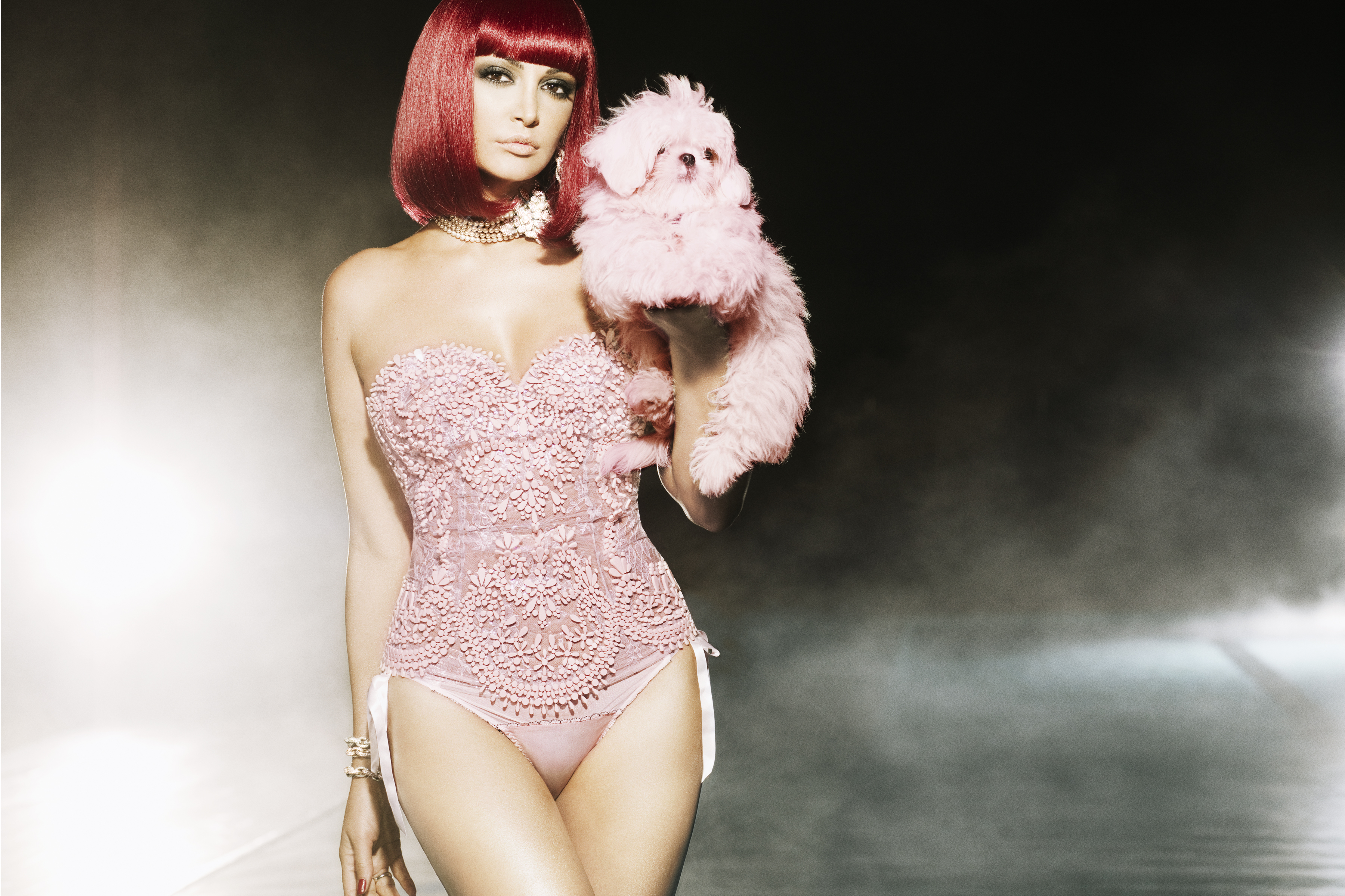 Bleona posing in pink with a dog